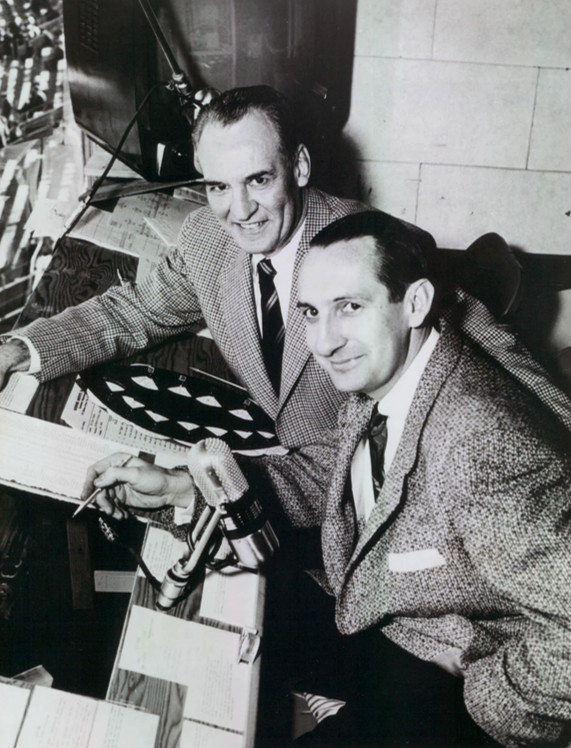 Photo of Red Grange and Lindsey Nelson to promote their coverage of NCAA Game of the Week on NBC.